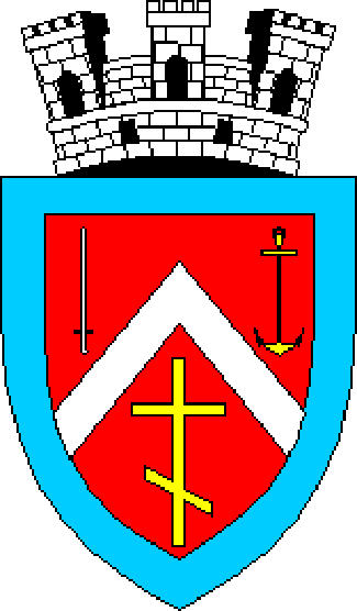 Interwar coat of arms of Reni, Ismail County, Kingdom of Romania.